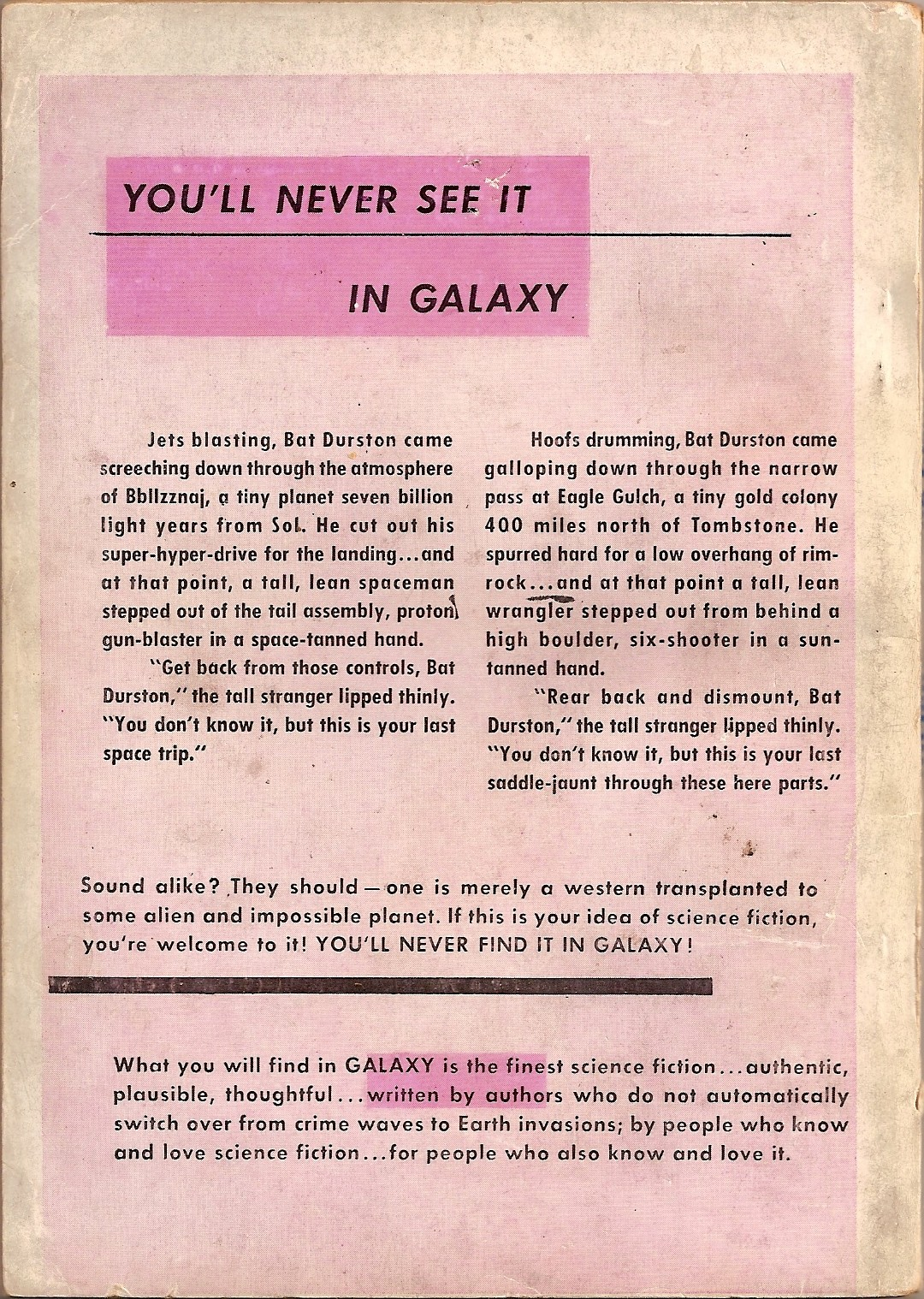 rear cover of Galaxy Science Fiction, October 1950. Published by World Editions. Works copyrighted before 1964 had to have the copyright renewed sometime in the 28th year. If the copyright was not renewed the work is in the public domain. These records are in the online catalog found here: . A search of the copyright catalog found no evidence that the copyright on the back page was renewed, including a search by magazine title and date, and by the apparent title of the back page, "You'll Never See It In Galaxy!" The copyright on this page was not renewed and it is in the public domain.